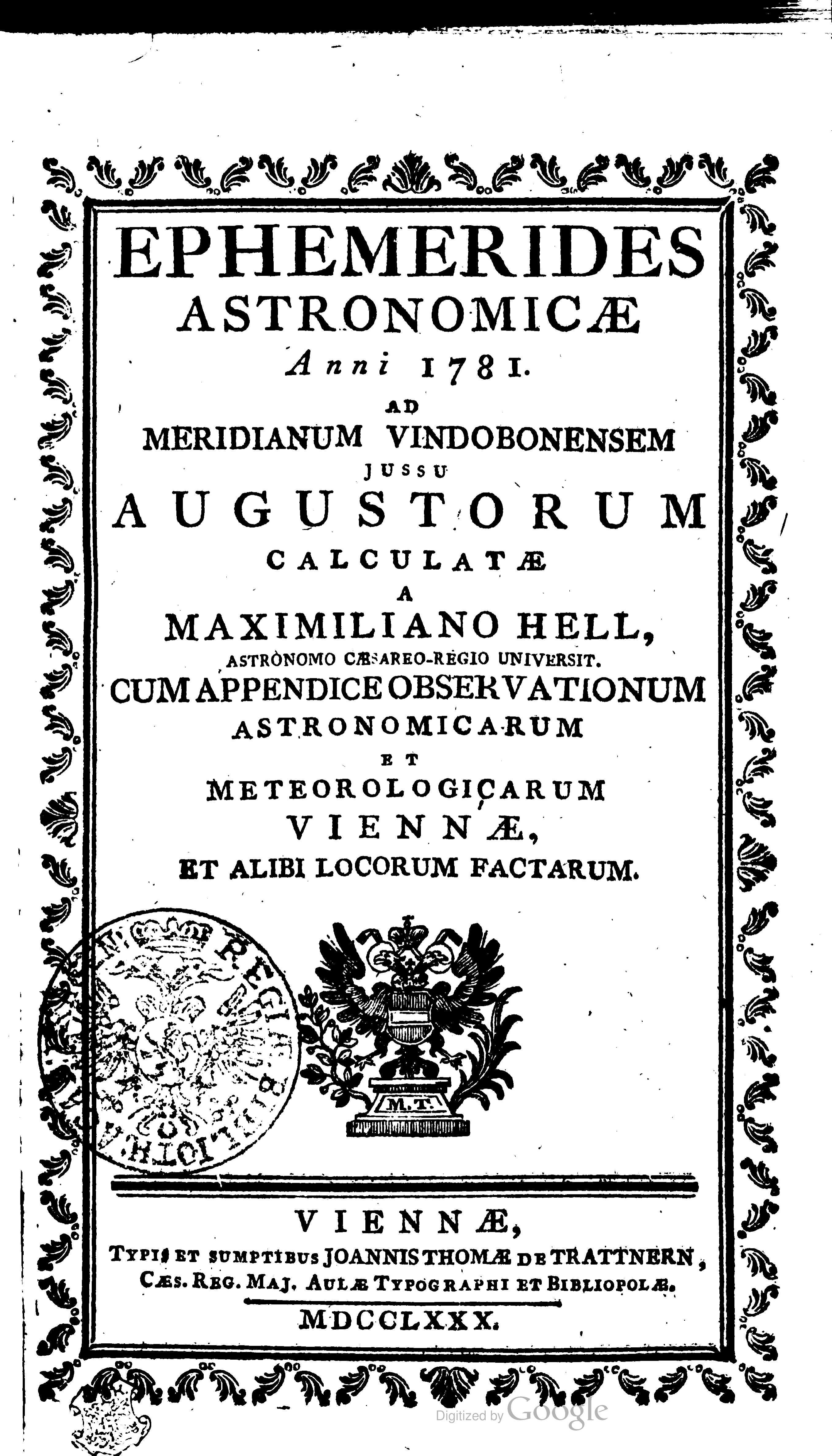 Title page of Ephemerides Astronomicae Anni 1781 ad Meridianum Vindobonensem (for the year 1781 at the meridian of Vienna). Published 1780